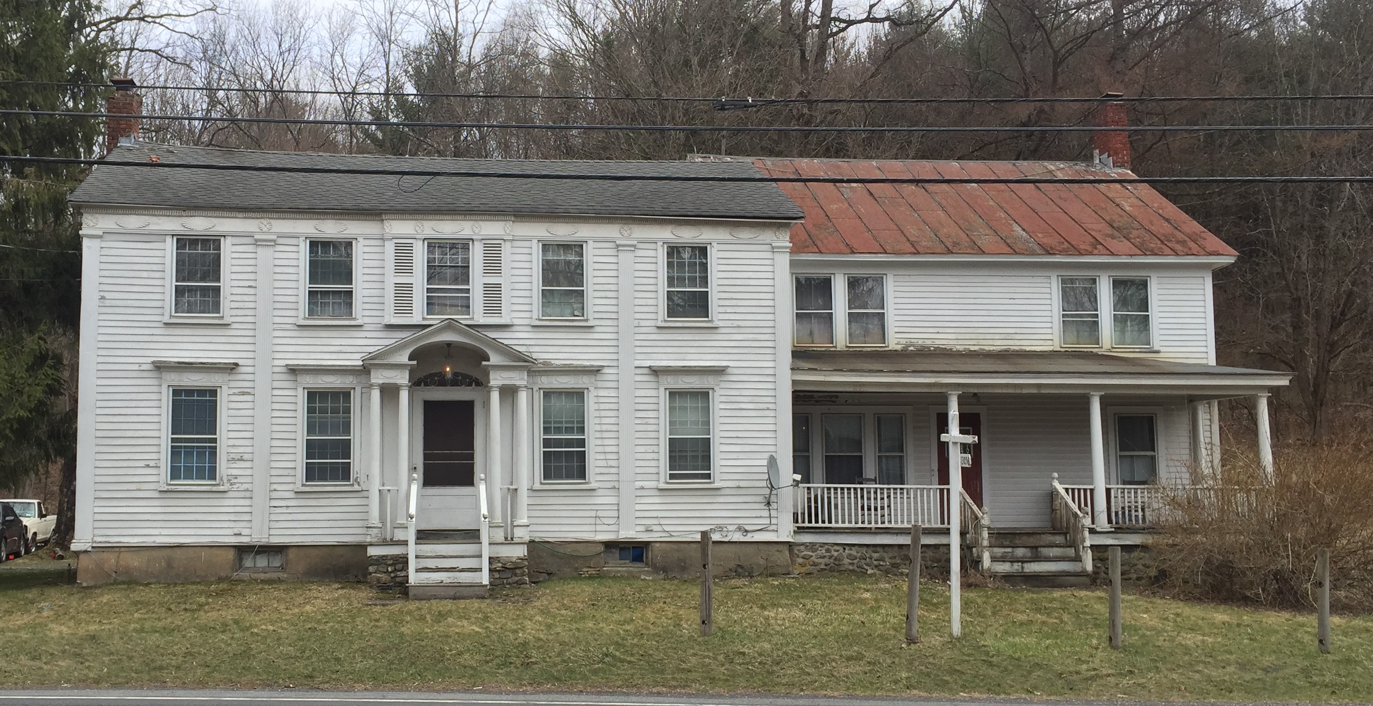 The man who ordered this house built was Uriah Edwards. The house was built by the Fuller Brothers of Canaan, New York. The Lace House is an example of Federal Style architecture.